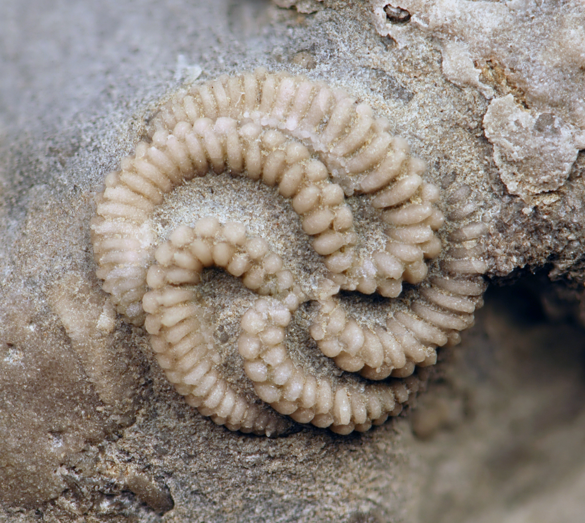 Streptaster vorticellatus (13 mm across) from the Bellevue Formation (Upper Ordovician) at the Maysville West roadcut of northern Kentucky, USA.